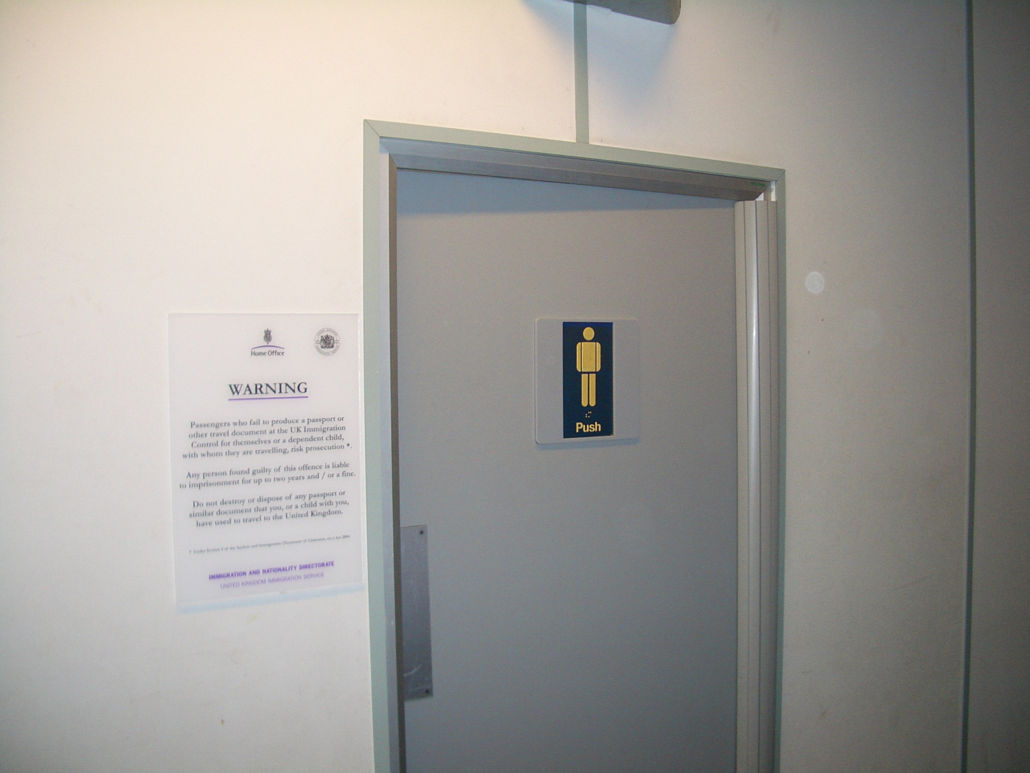 The door of a toilet in London's Stansted Airport, with a Home Office's warning to the travelers not to destroy their travel documents